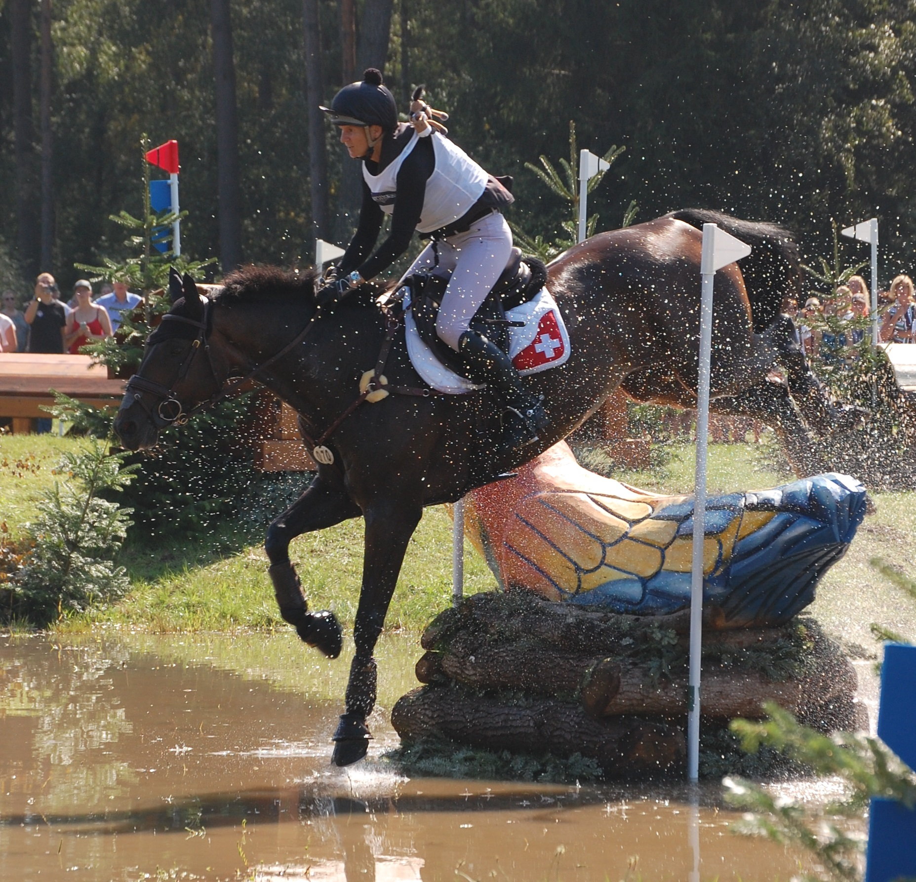 Swiss rider Camille Guyot and Ulsan de Lacoree, fence 20b, a bird at "Lake Land Rover" (cross-country phase), 2019 European Eventing Championship, Luhmühlen